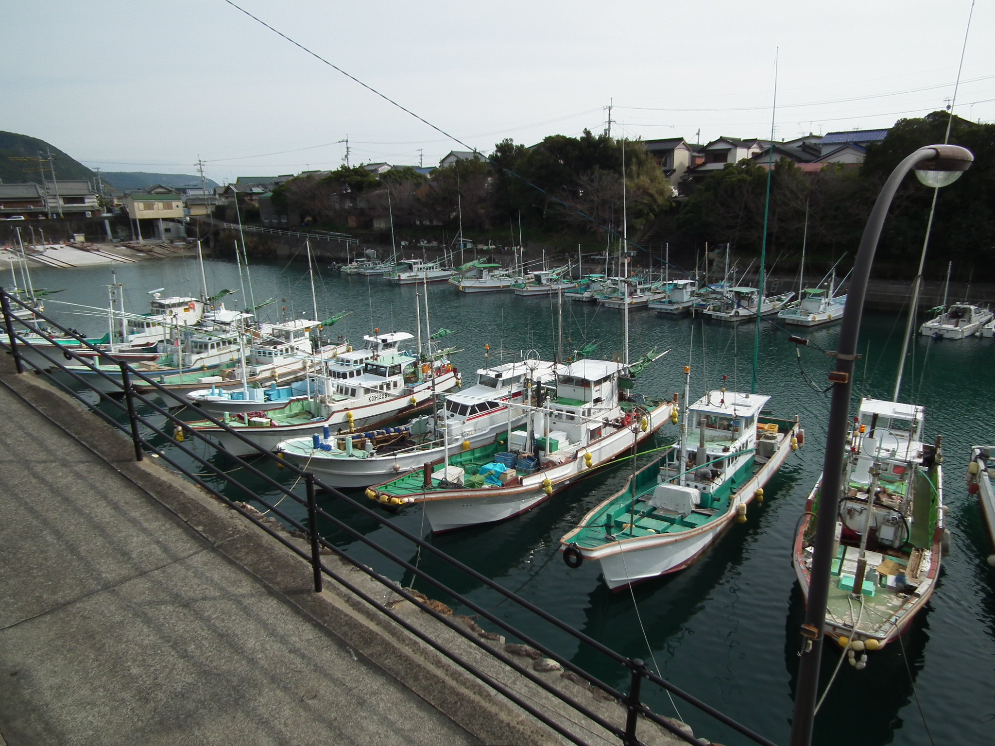 Murotsu-ko